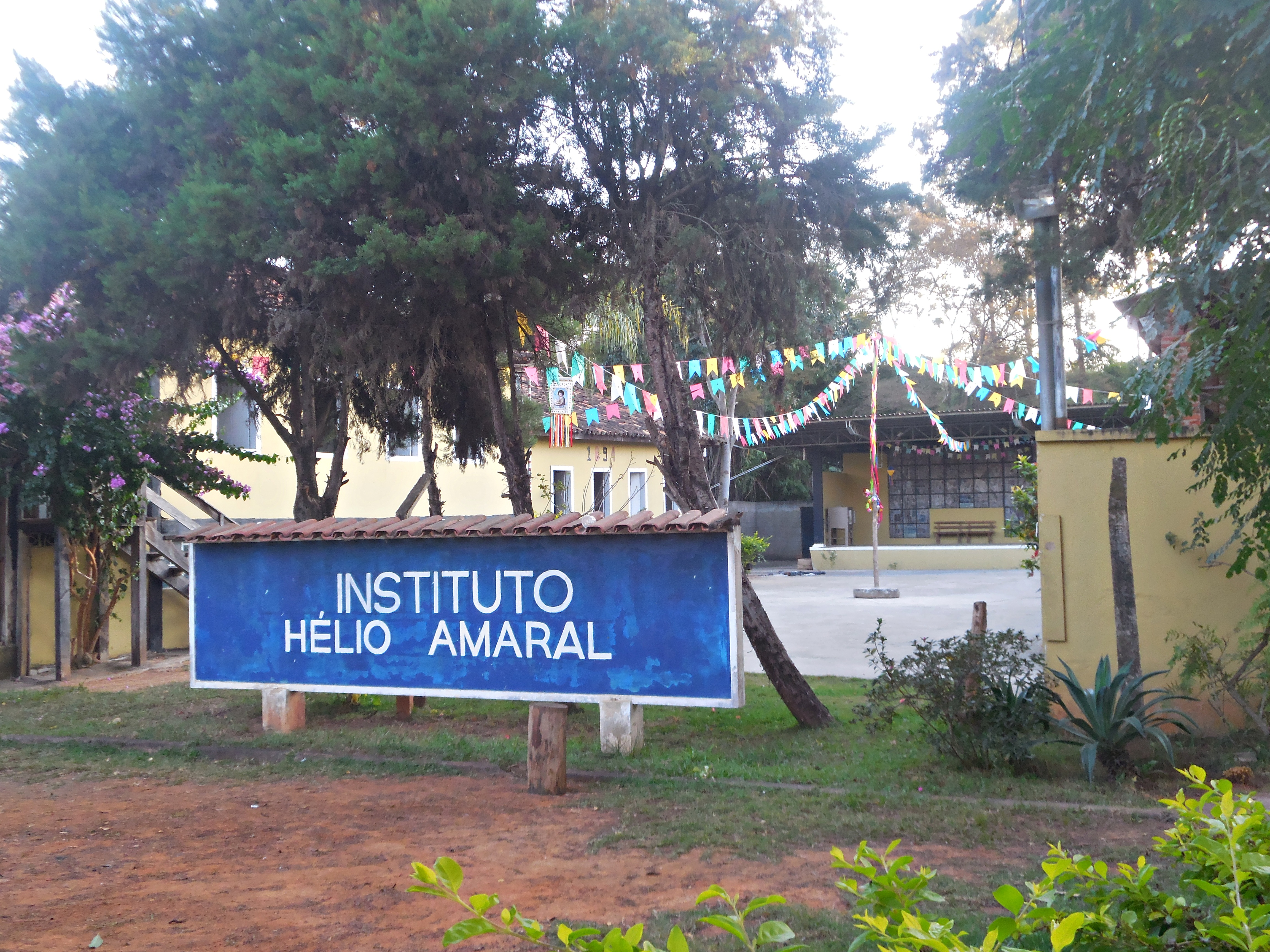 Entrance of the Instituto Hélio Amaral, in Caratinga, Minas Gerais, Brazil.